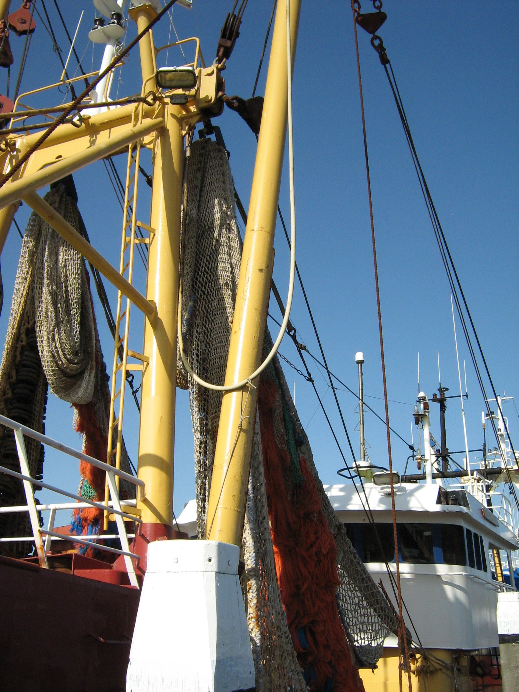 Nice photo for 'Fishery' item. Taken in the harbour of Stellendam in the Netherlands.